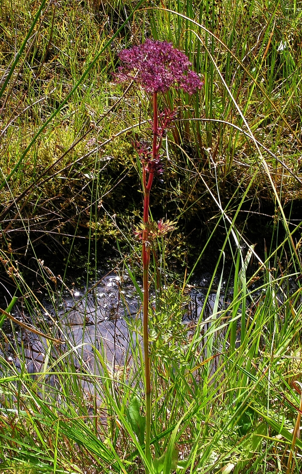 Selinum carvifolia (?). Moscow region, Russia.